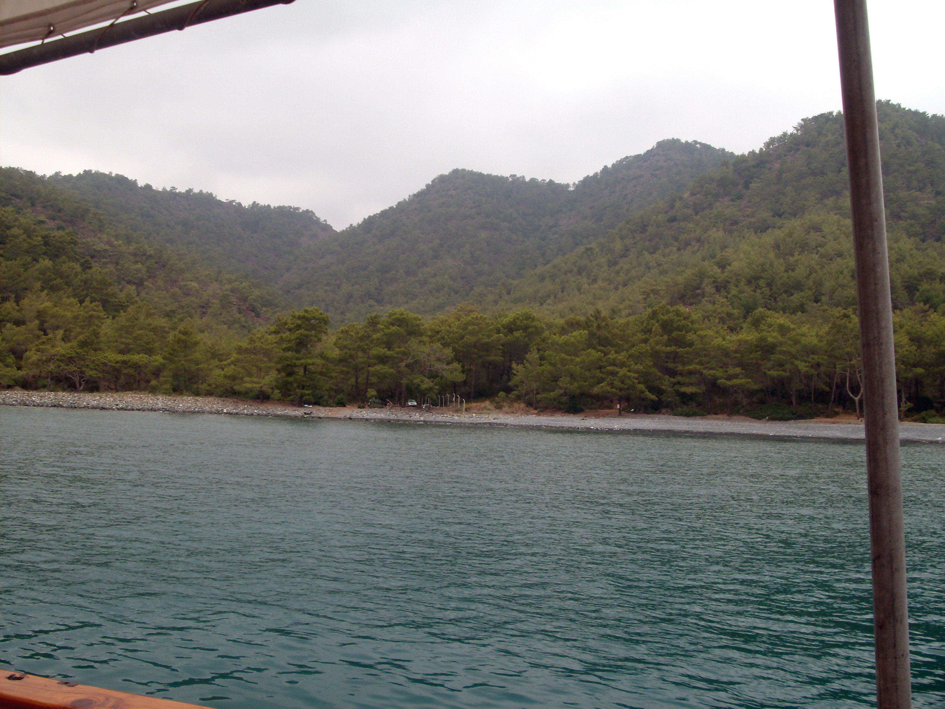 Mediterranean Sea in Turkey before the rain.